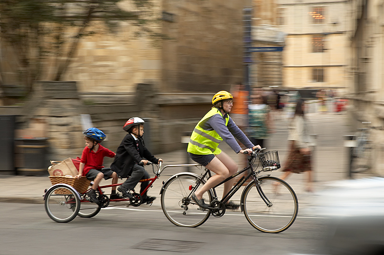 High street-Oxford Adult and two children cycling with cargo load with trailerFamily Ride